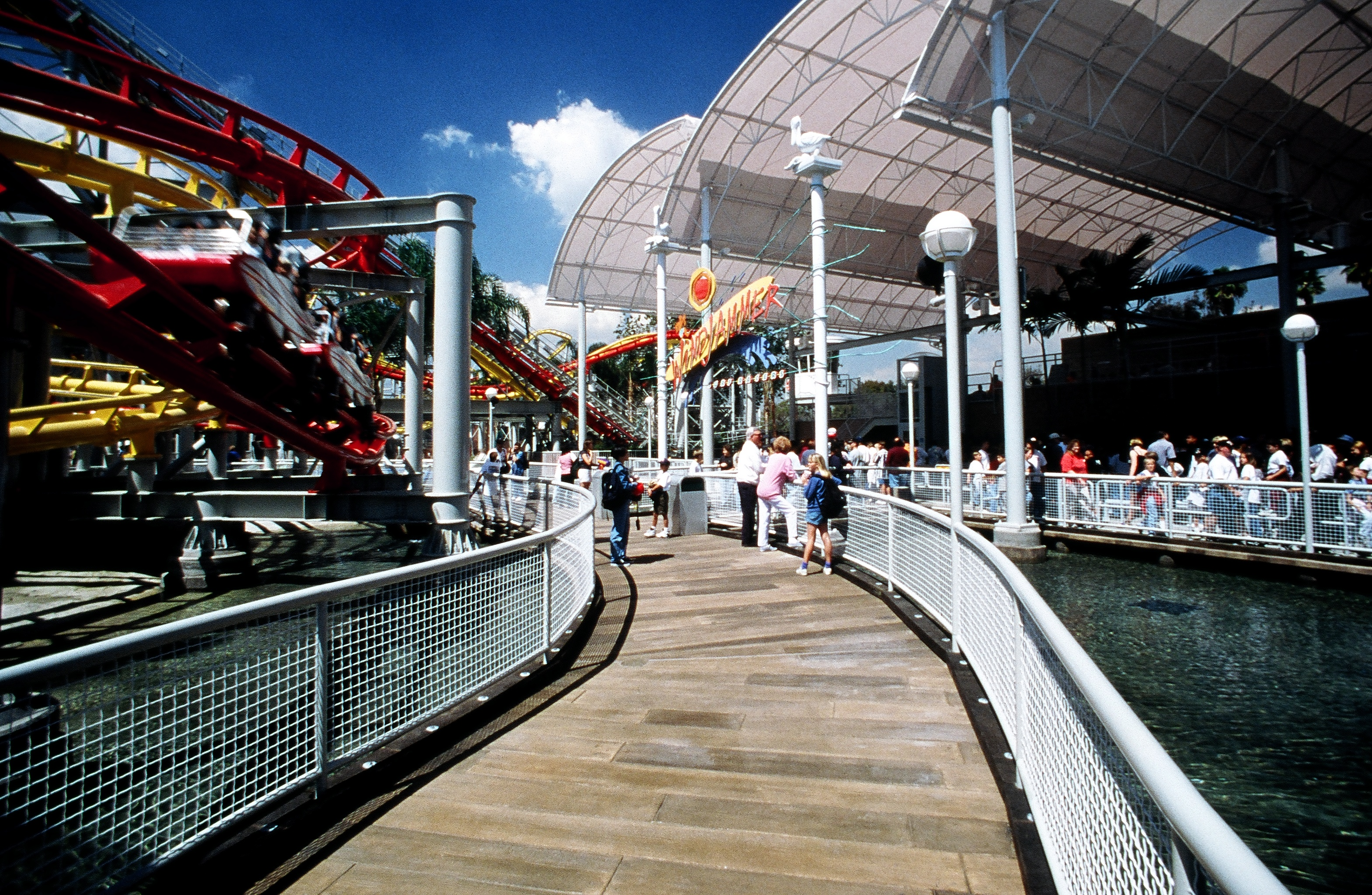 Windjammer Surf Racers general view25390002